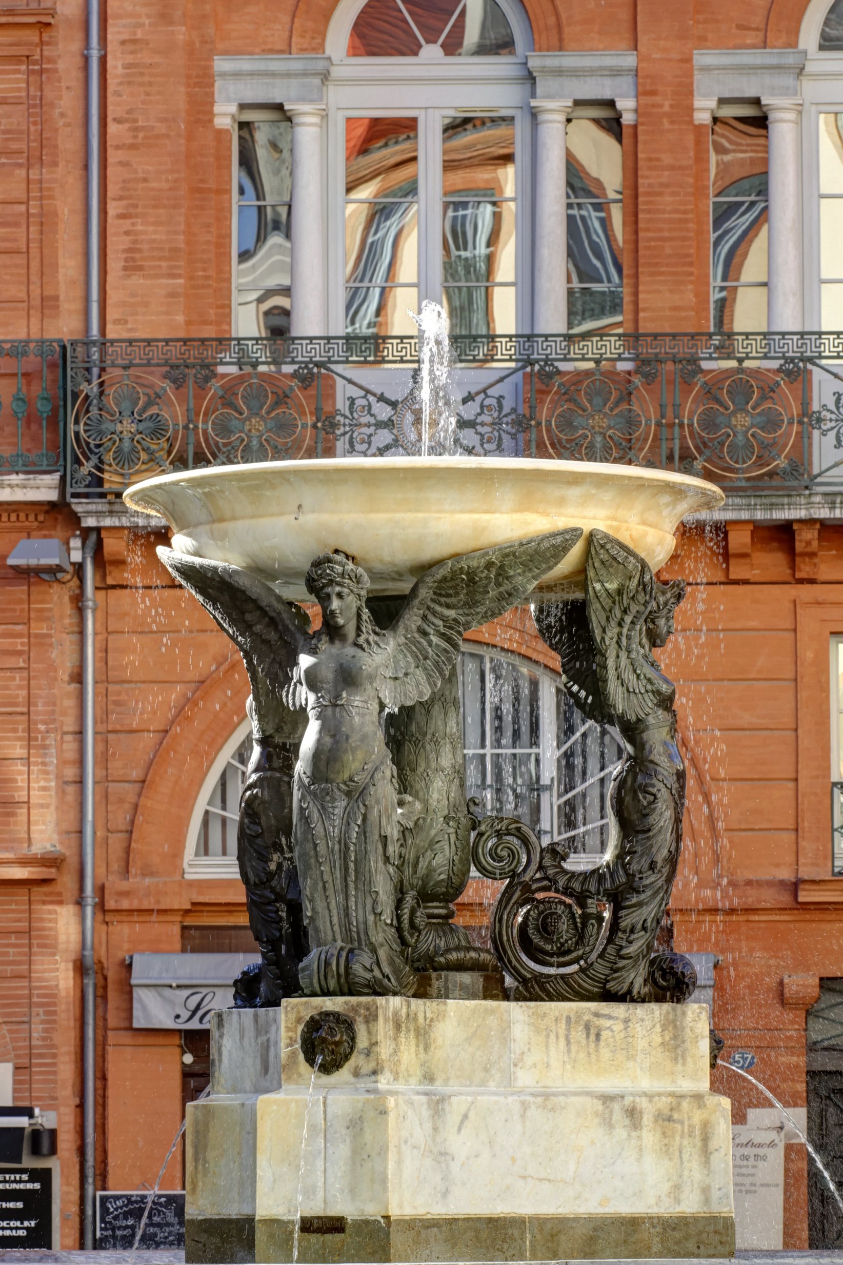 Trinity fountain in Toulouse